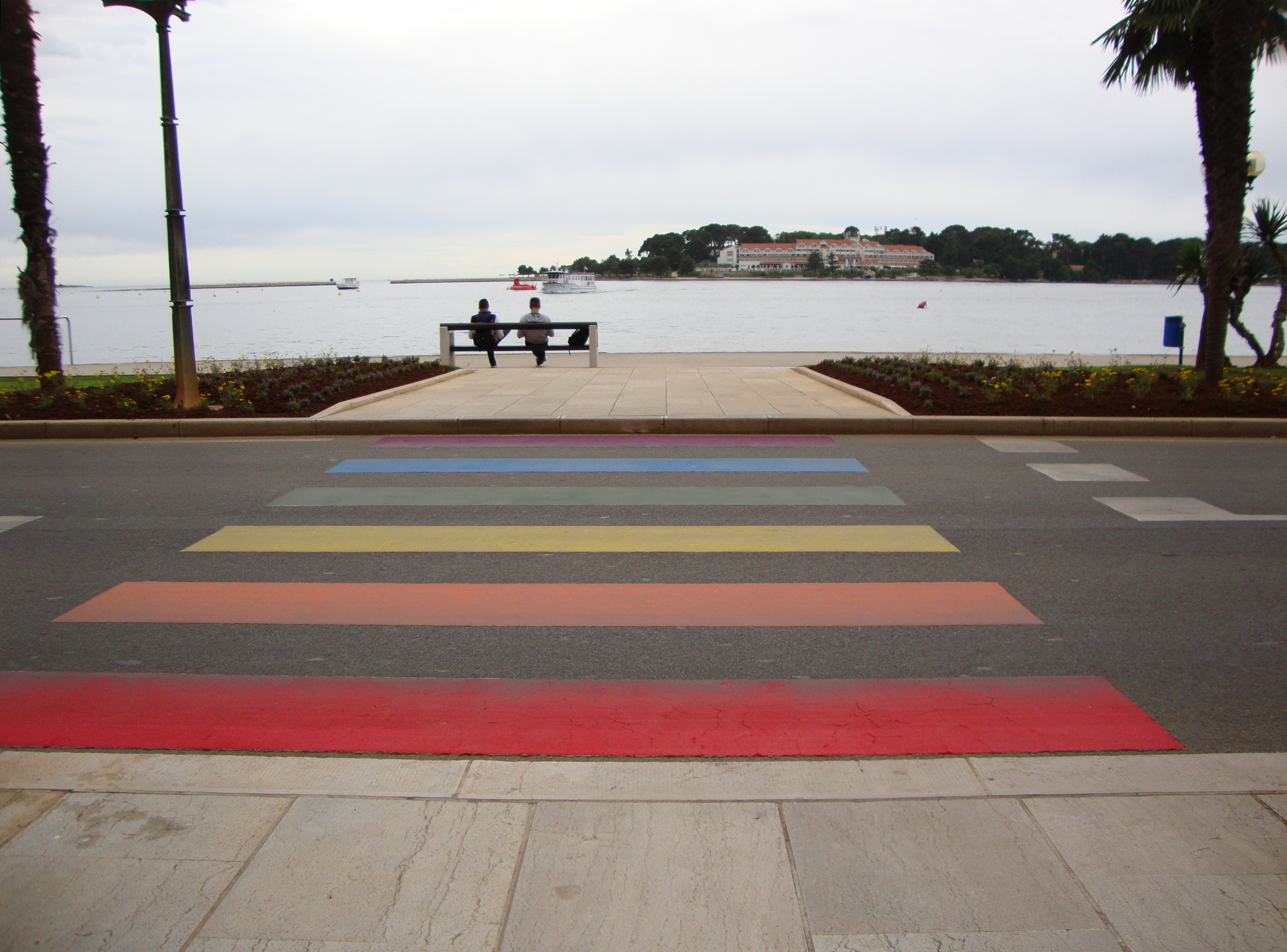 A rainbow coloured pedestrian crossing on the Marshall Tito Strand in Poreč on the occasion of the International Day Against Homophobia 2014.